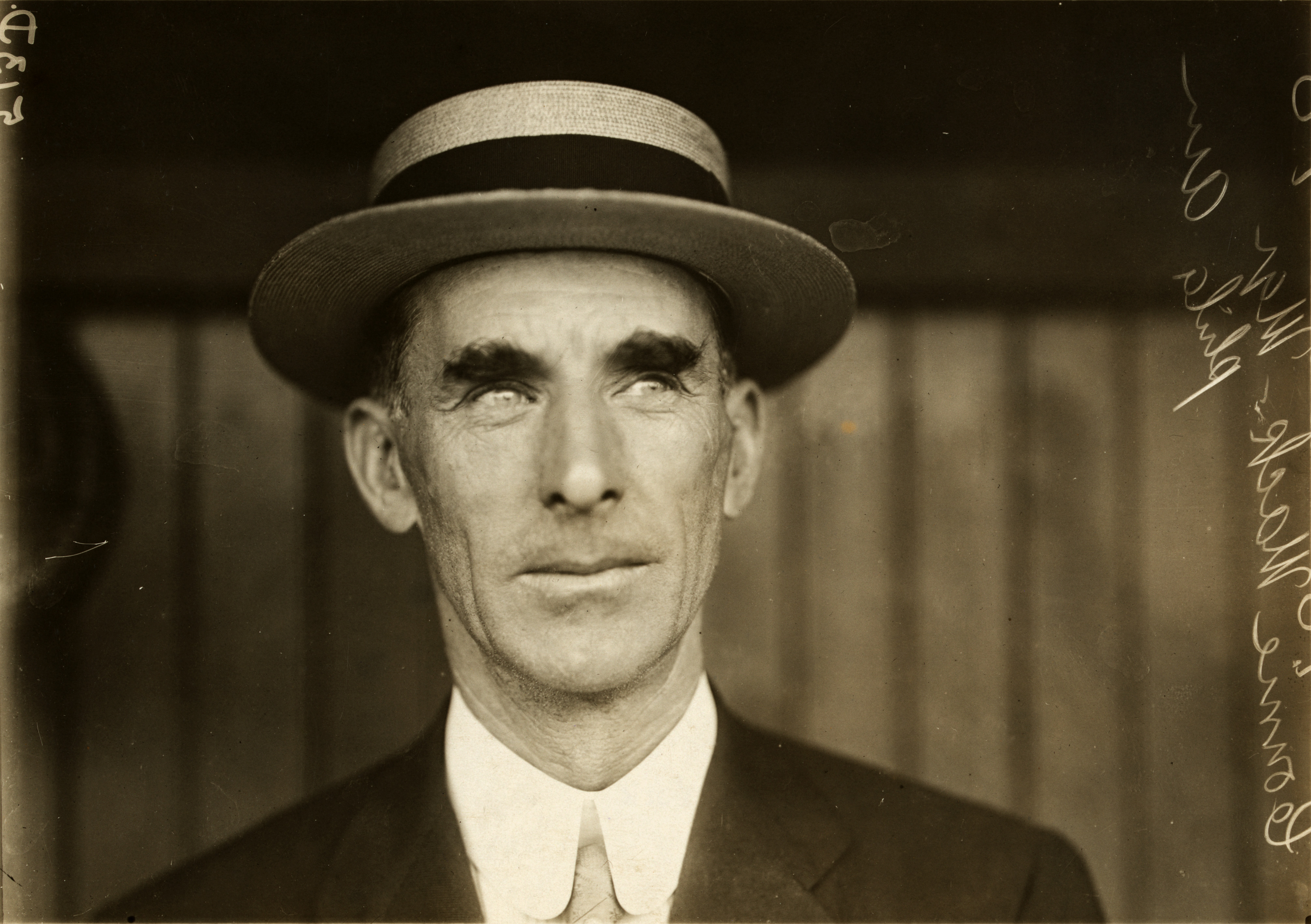 Connie Mack, manager and owner of the Philadelphia Athletics, head-and-shoulders portrait, facing front, wearing straw boater. Photograph by Paul Thompson, 7 January 1911.